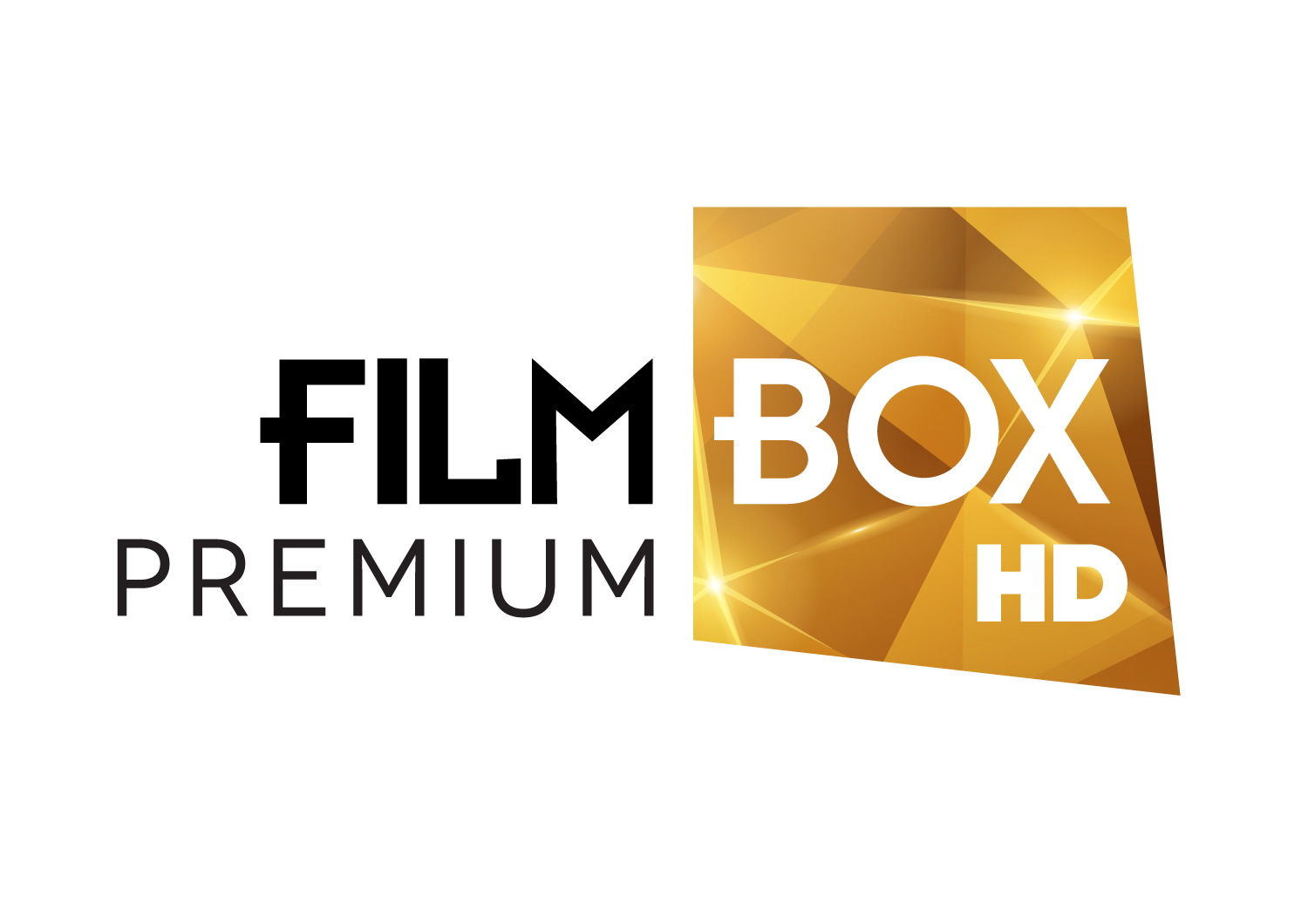 Logo of FilmBox Premium HD